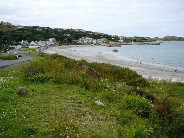 The beach at Leabgarrow, Aran Island